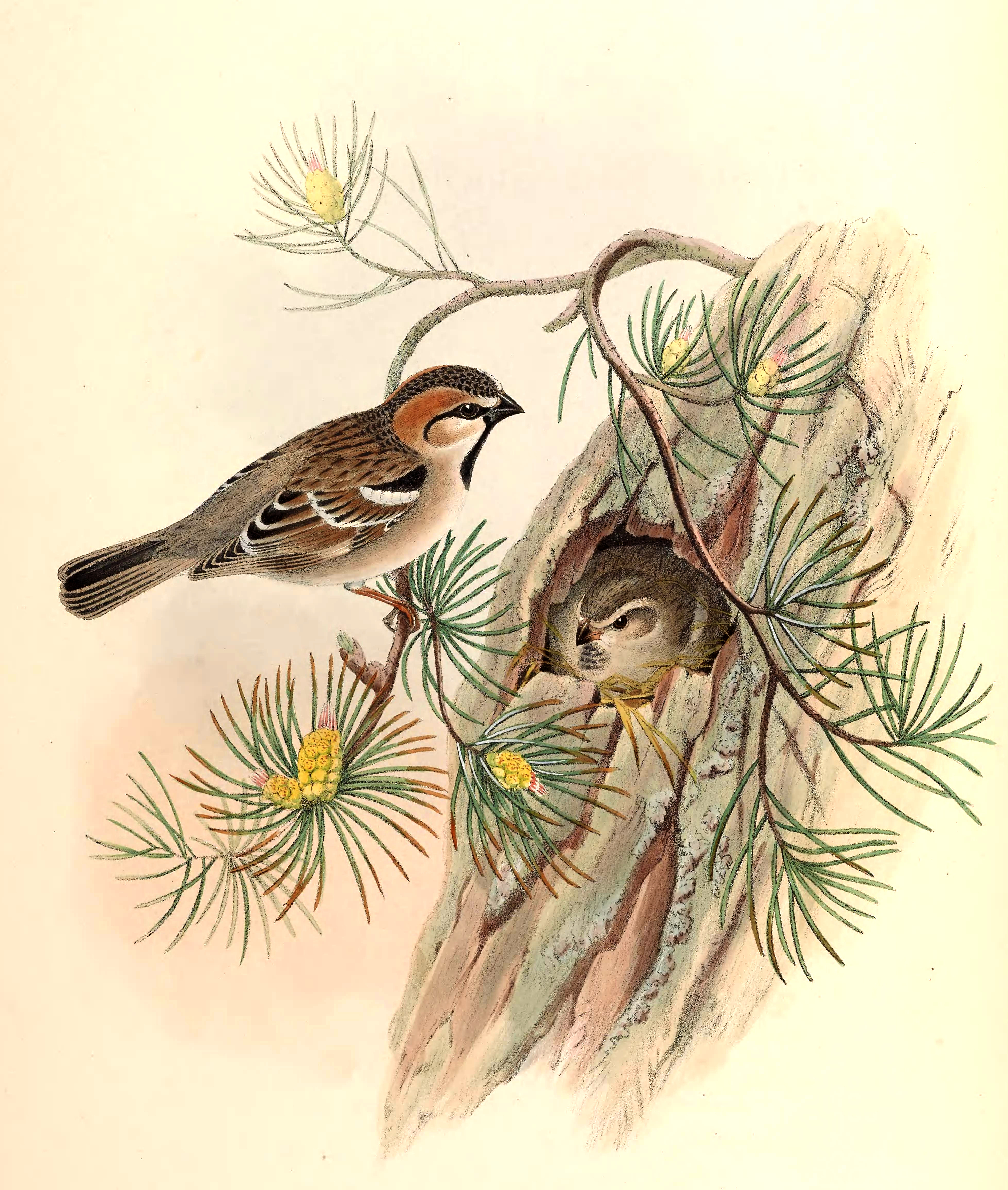 An illustration of the Saxaul Sparrow (Passer ammondendri, called the "Turkestan Sparrow" in the book the illustration was published in)